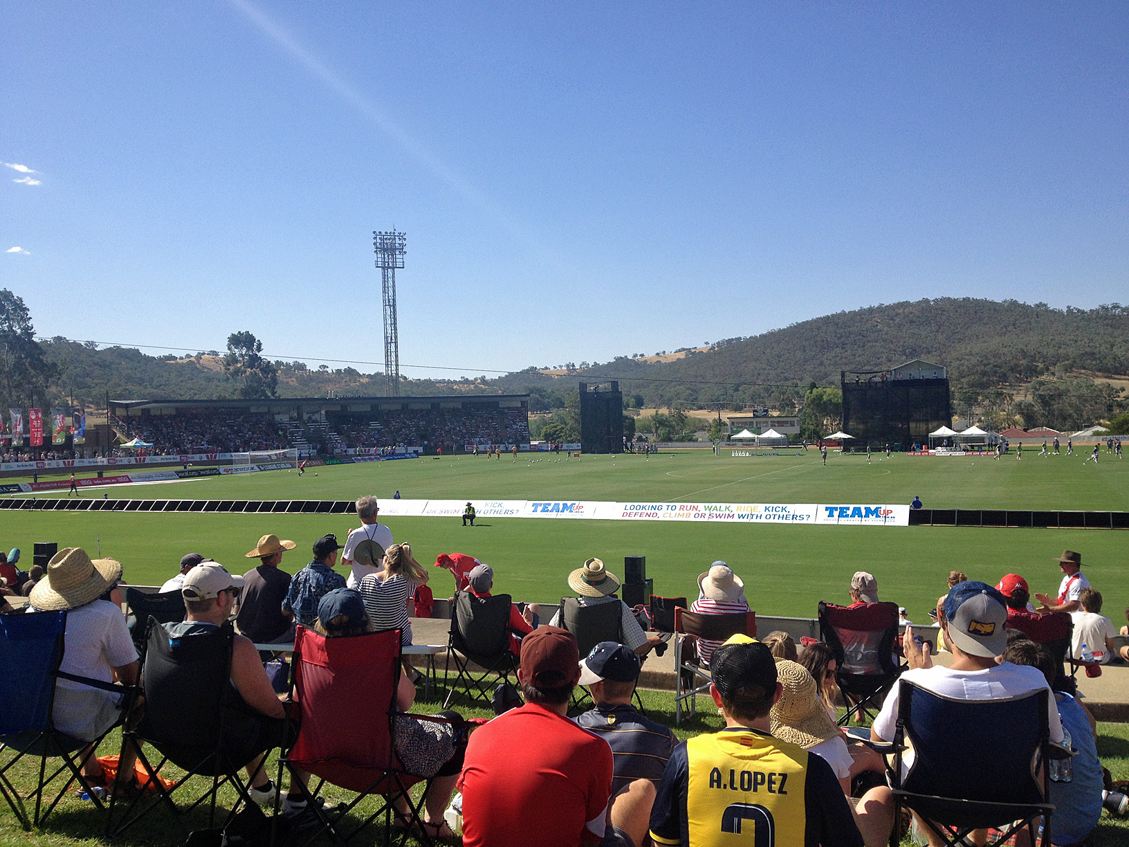 Lavington Sports Ground in soccer configuration, view from the southern hill across to the main grandstand. Pre-match at the Melbourne Heart v Perth Glory A-League match on 9 February 2014. Uploaded for use on the Lavington_Sports_Ground article.